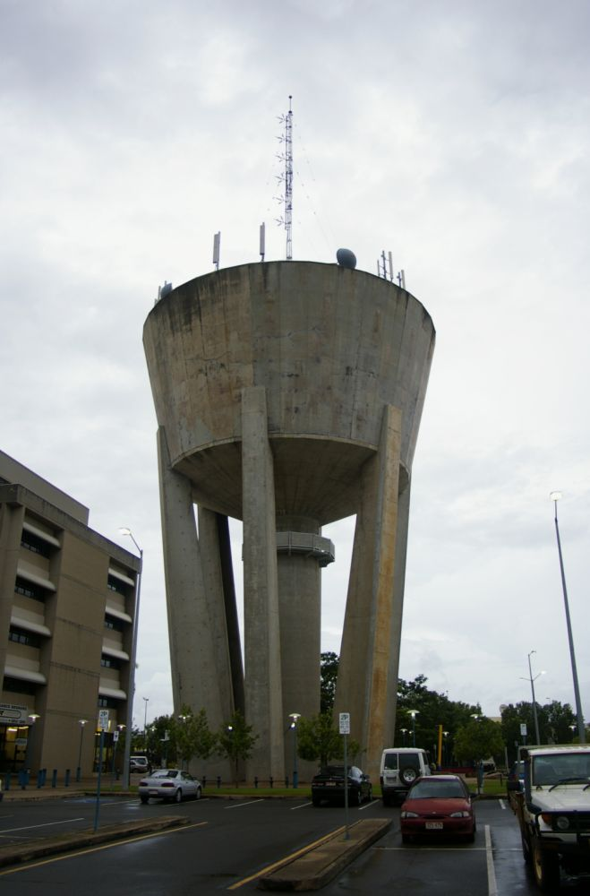 Palmerston Water Tank and Communications tower (With a small transmitter tower for Darwin radio station Hot 100). Palmerston, Northern Territory